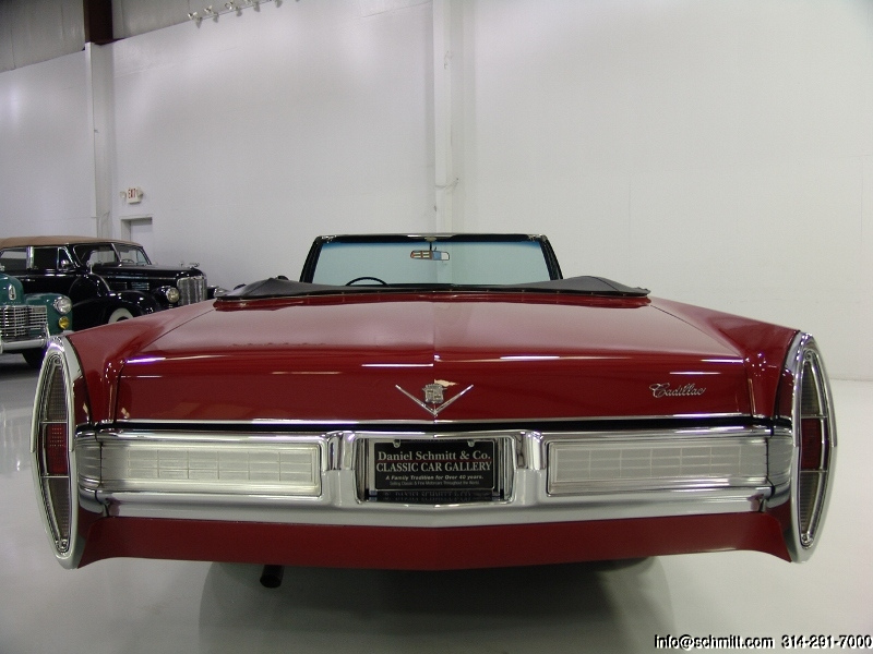 This is a picture of a vehicle (name of it is on the file name).